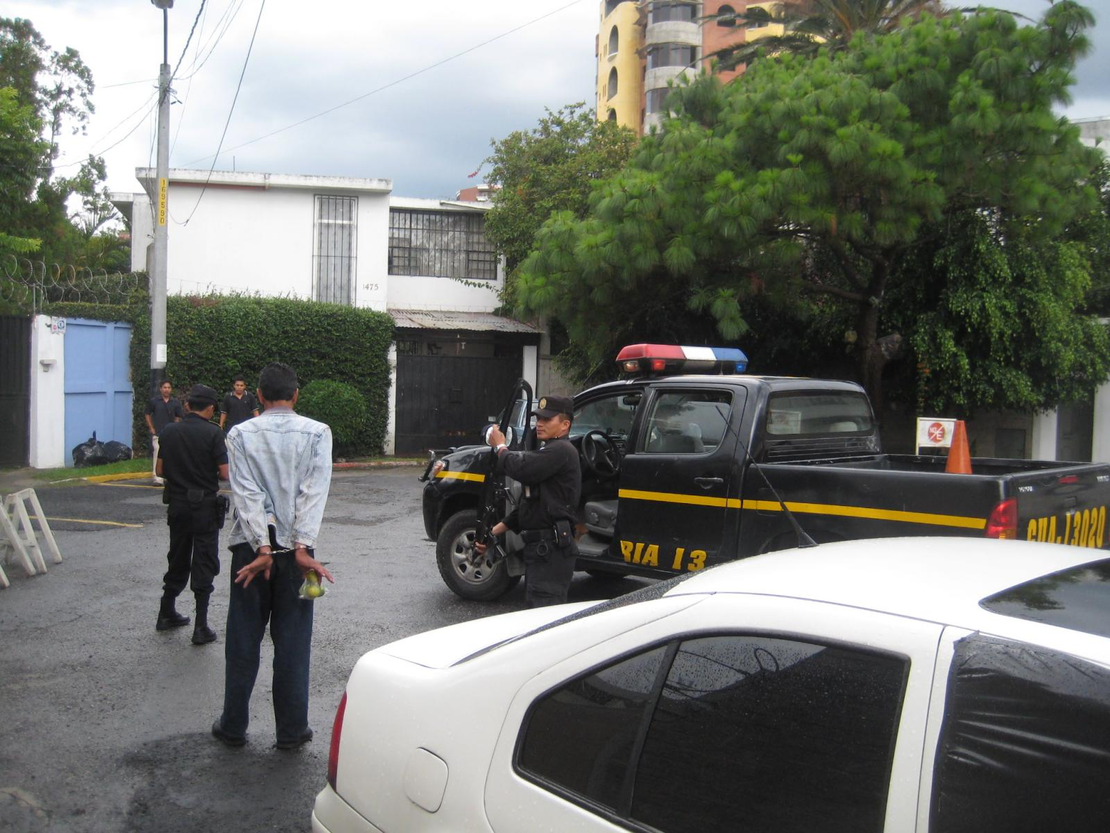 Suspected thief apprehended by officers of the National Civilian Police (PNC) in a Guatemala City residential neighborhood.